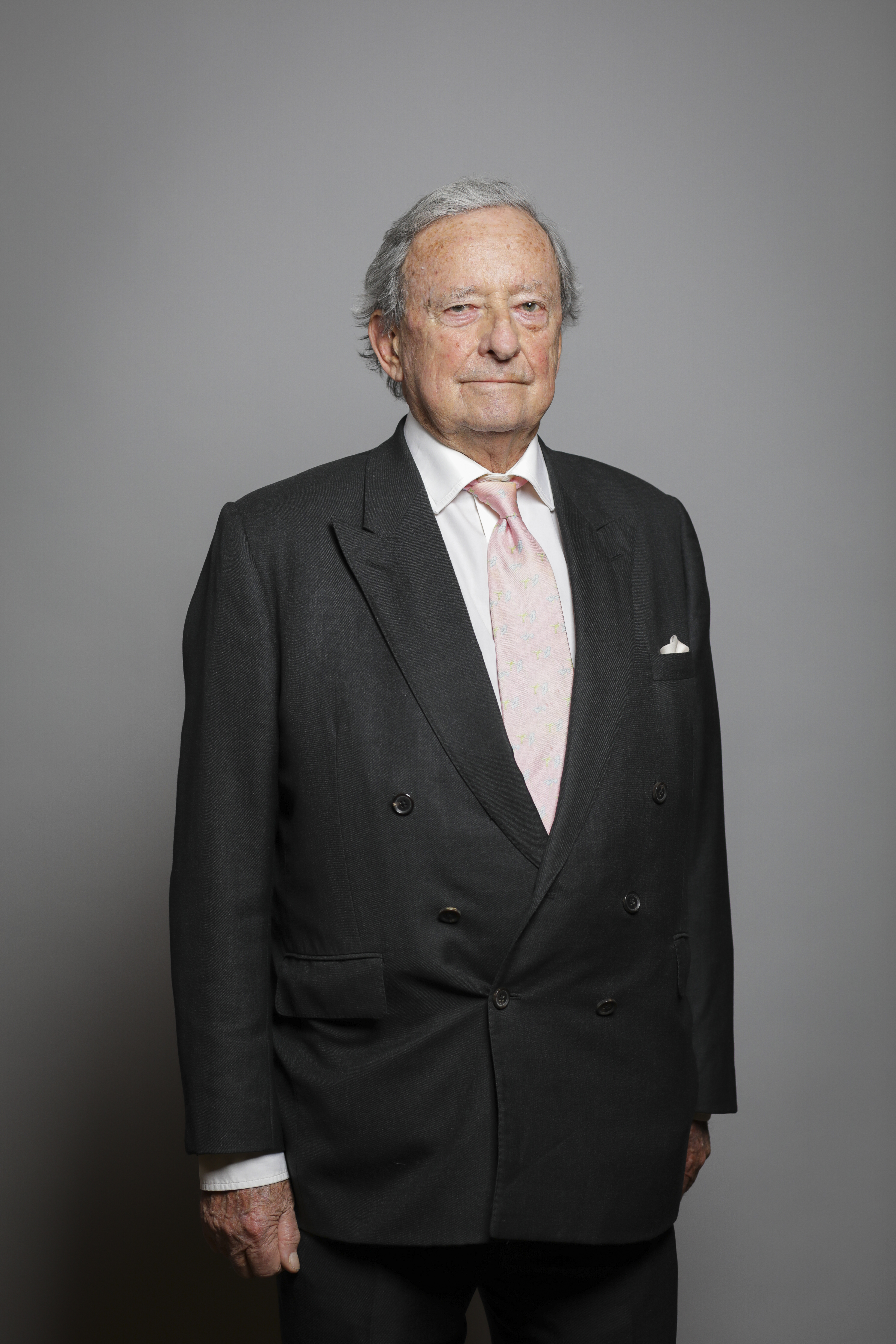 Official portrait of The Earl of Arran Full sized portrait of The Earl of Arran